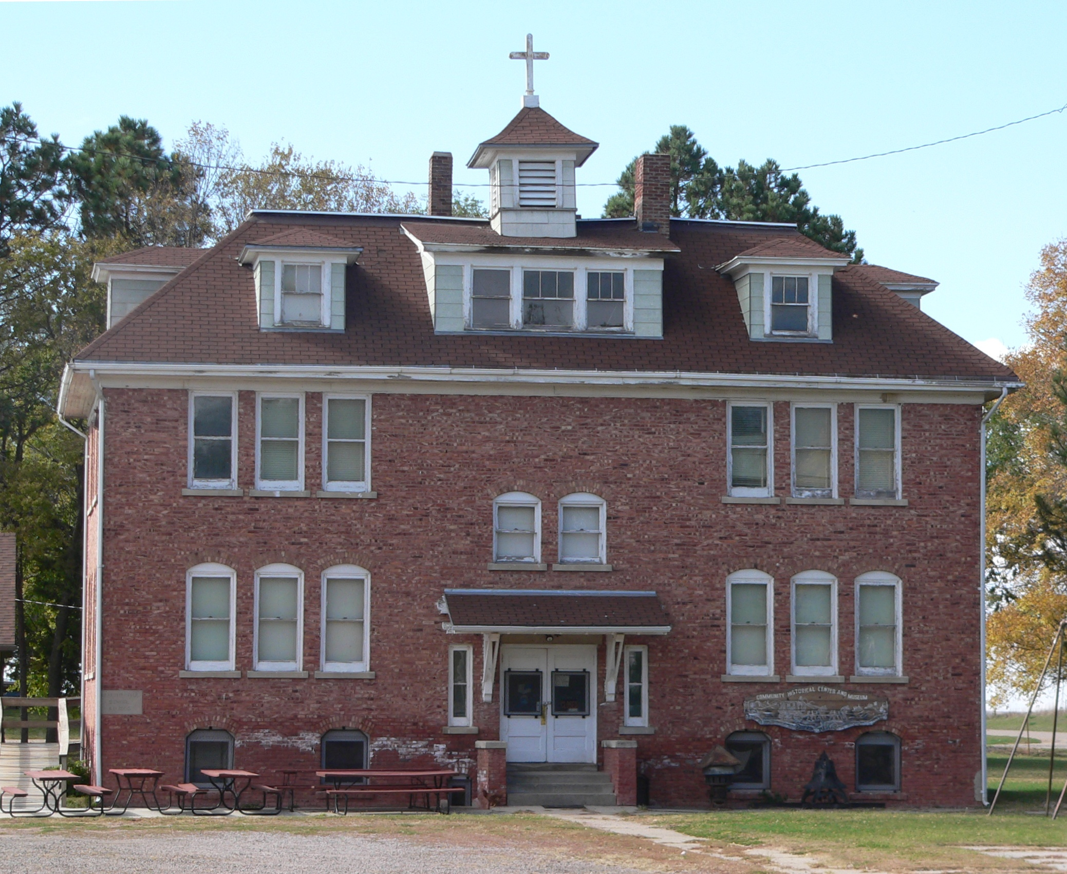 SS. Peter and Paul Catholic School in Butte, Nebraska; seen from the east. The Renaissance Revival building was constructed in 1909, and is listed in the National Register of Historic Places. It now houses the Butte Community Historical Center and Museum.